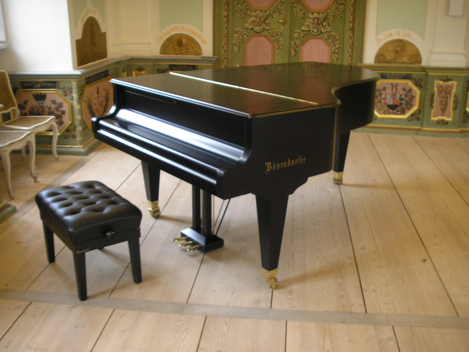 Image of a Bösendorfer piano, taken in the Gut Hohen Luckow, located in Mecklenburg.